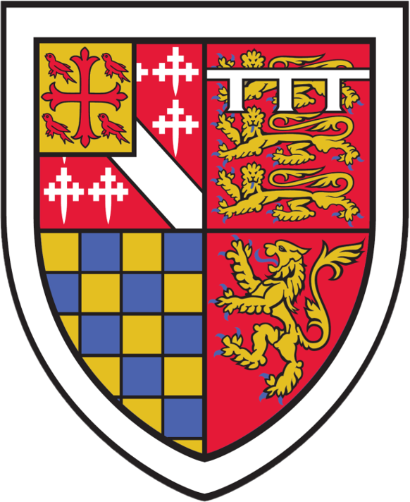 St Edmund's Crest